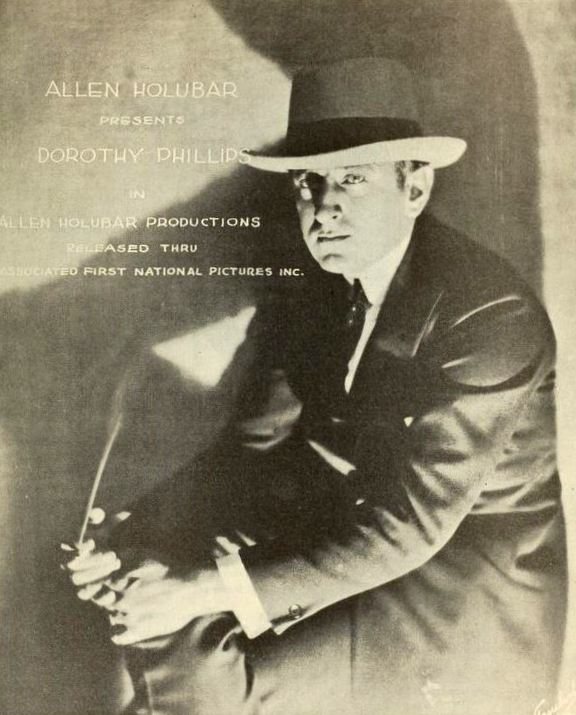 American actor and director Allen Holubar from an ad on page 33 of the April 24, 1921 Film Daily.